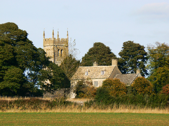 Church Farm, Coates, Gloucestershire, with the tower of St Matthew's parish church beyond